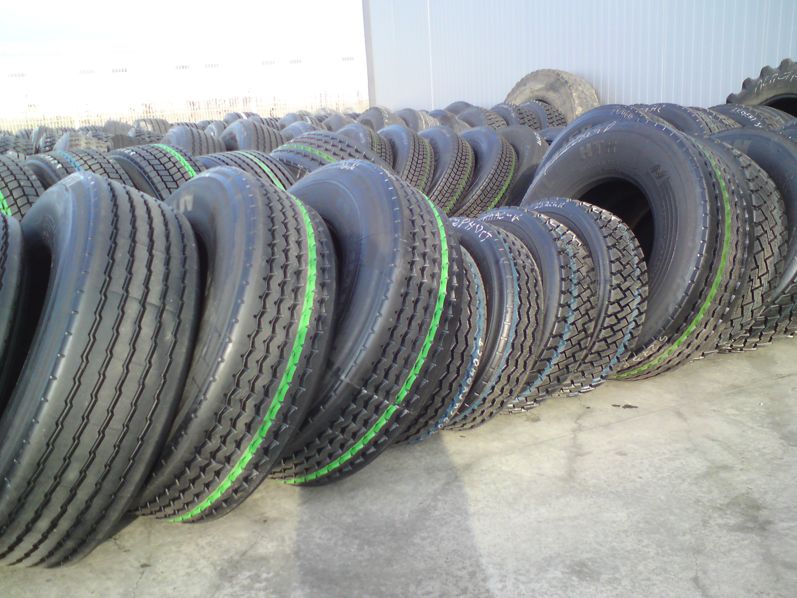 Truck tires